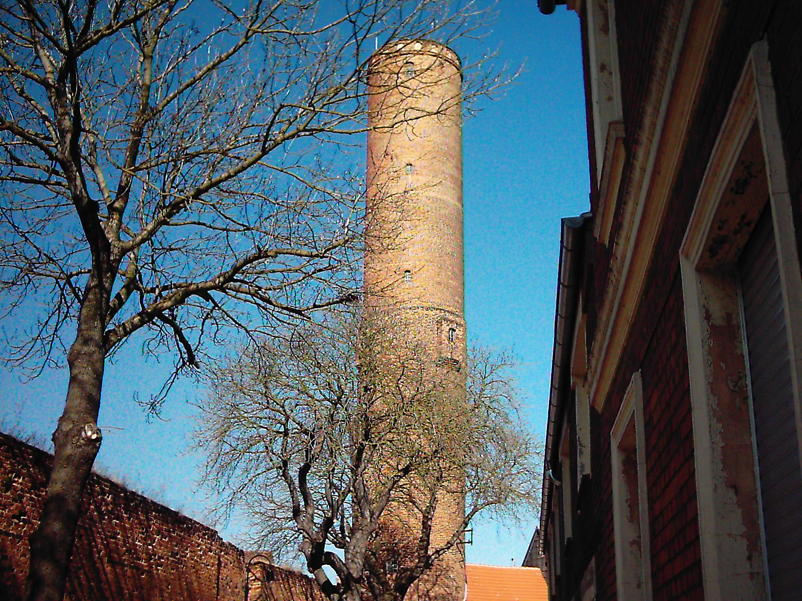 Shot Tower in Tangermünde